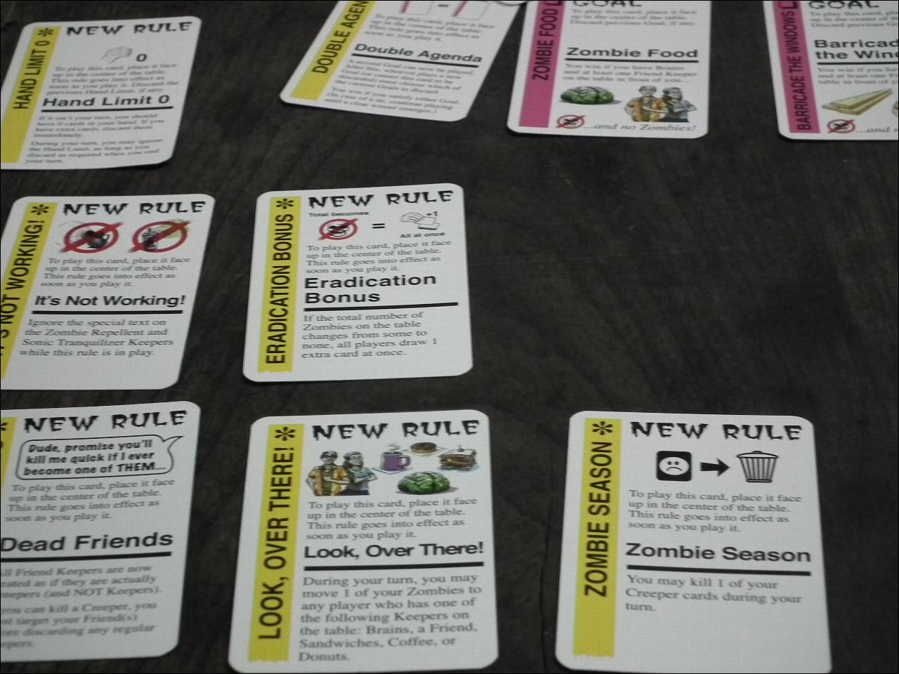 Cards laid out during a game of Zombie Fluxx. Zombie Fluxx is a variation of the traditional Fluxx Card game.